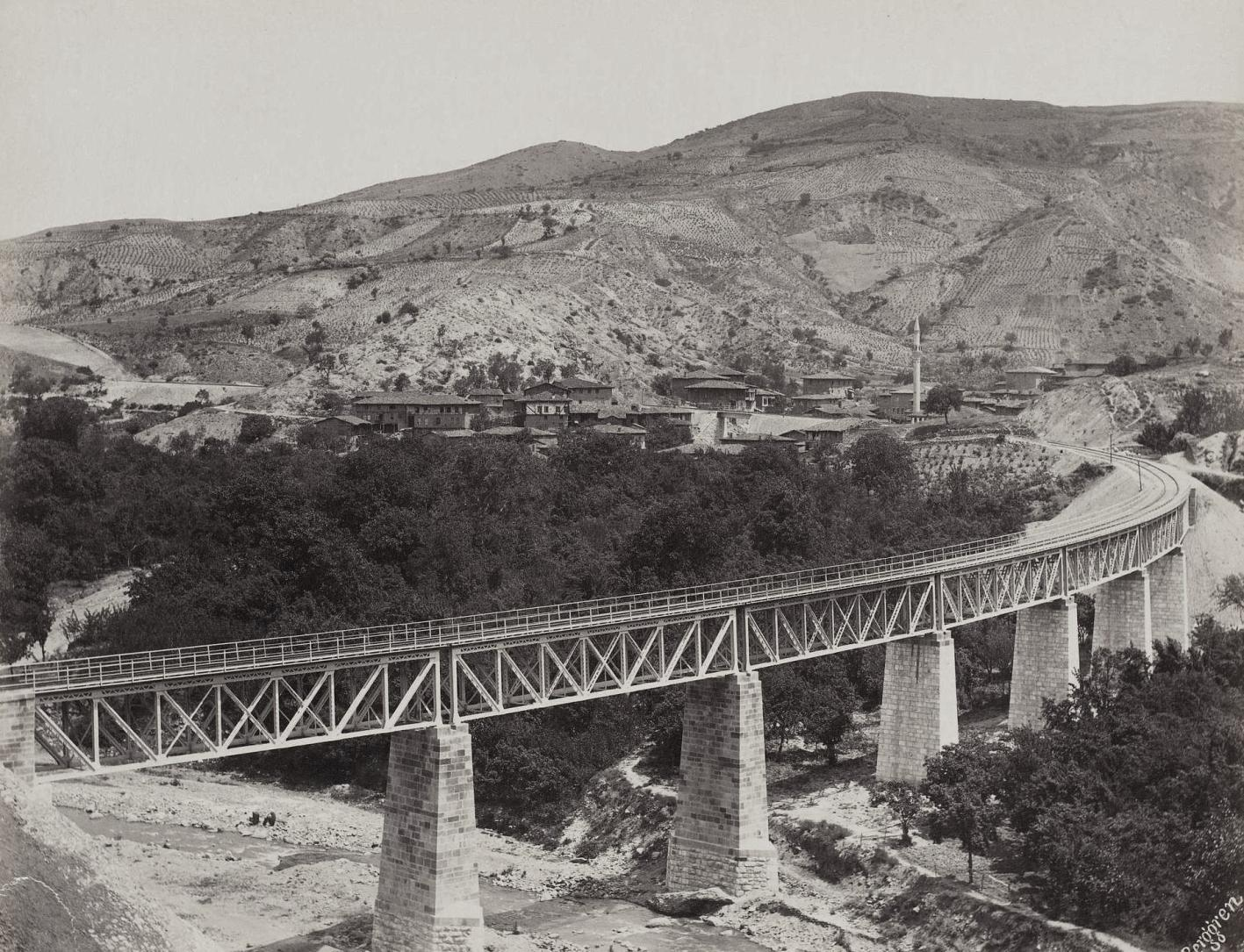 Ankara Railway, Pekdemir Bridge, Bilecik, 1894